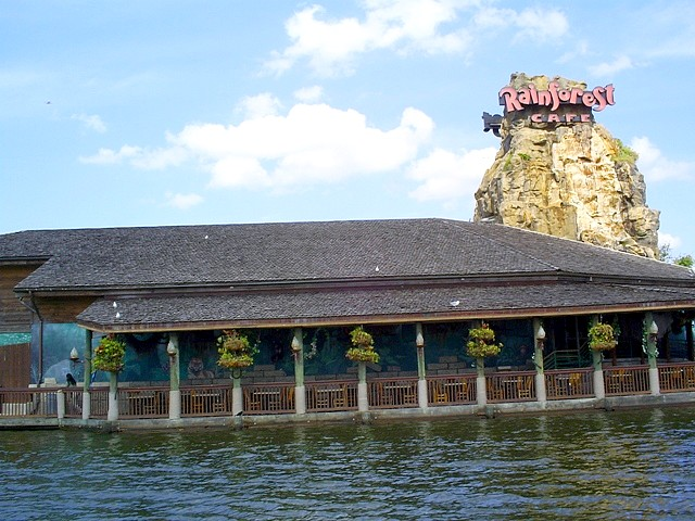 Rainforest Cafe in Downtown Disney as it appeared before the exterior volcano remodel.